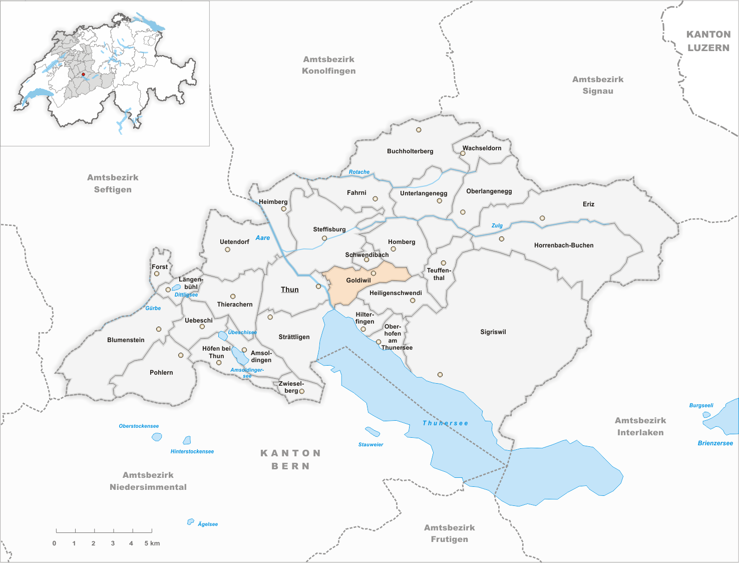 Municipality Goldiwil